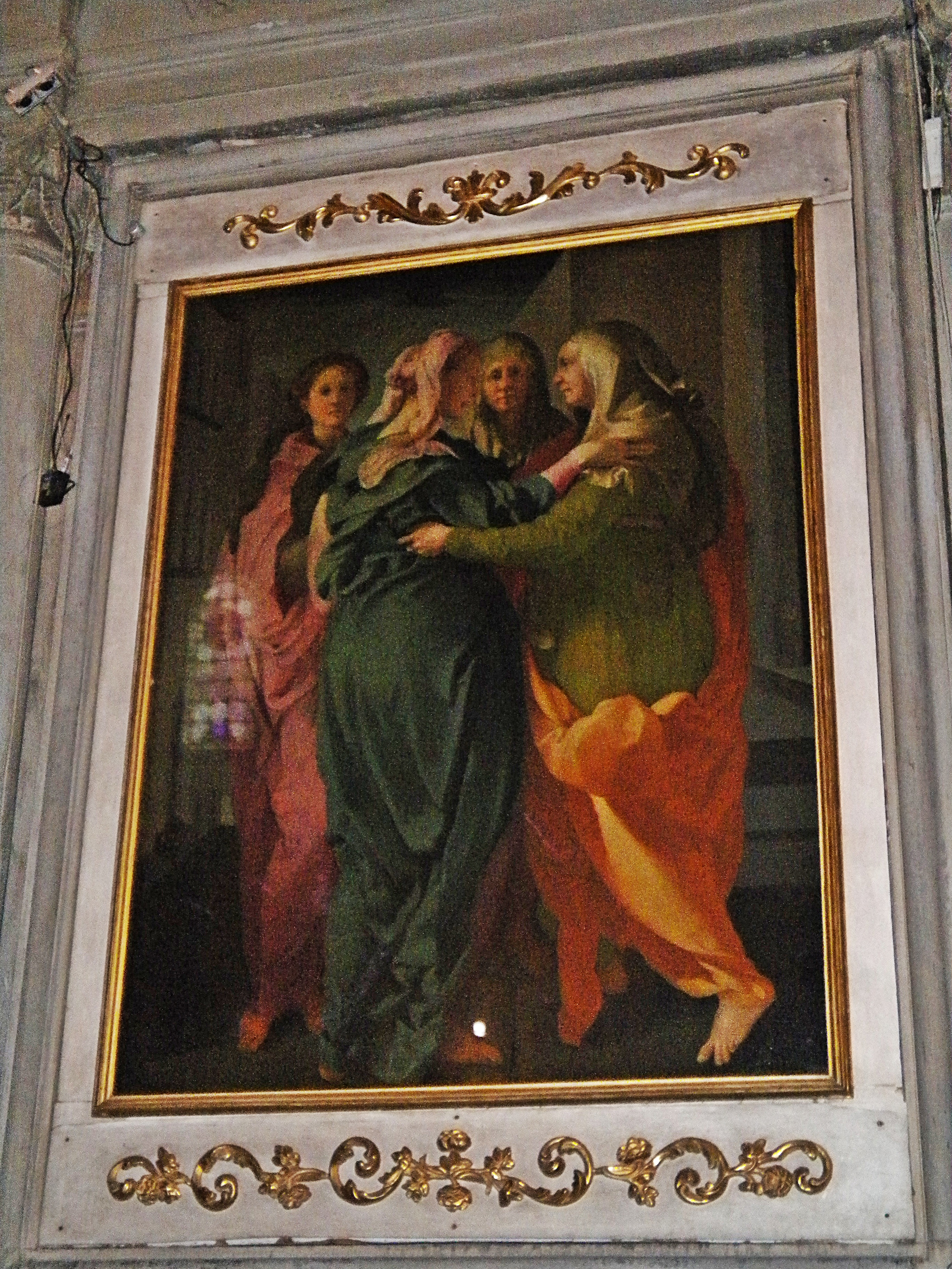 visitation autor:Jacopo Carrucci (Pontormo)